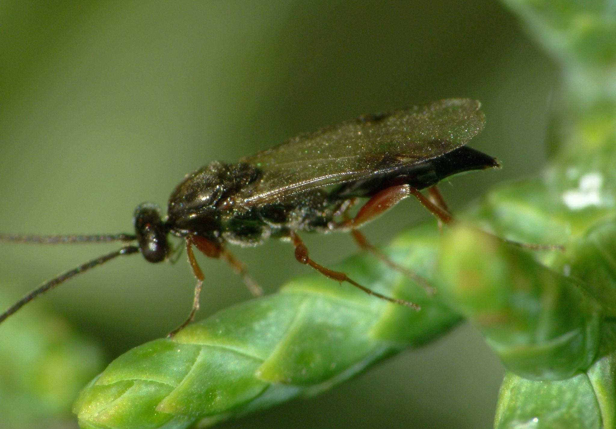 Fustiserphus intrudens by Steve Kerr from iNaturalist observation